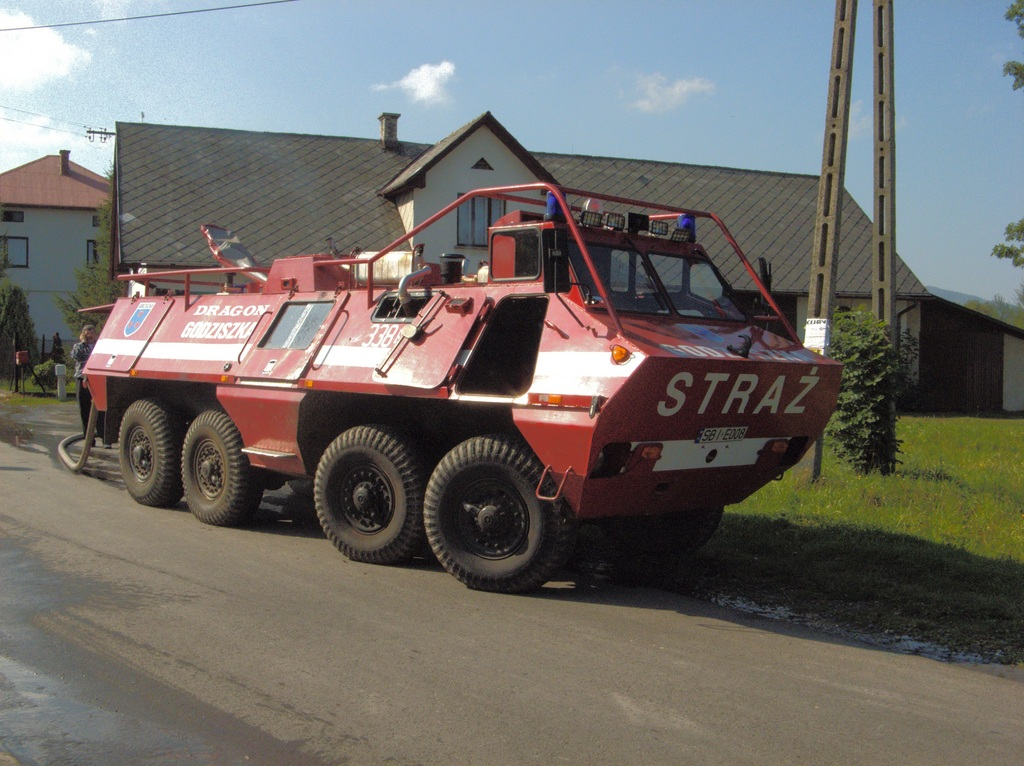 A GCBM 3/8 SKOT-1A/Dragon fire engine in Poland. This is a modified SKOT-1A.